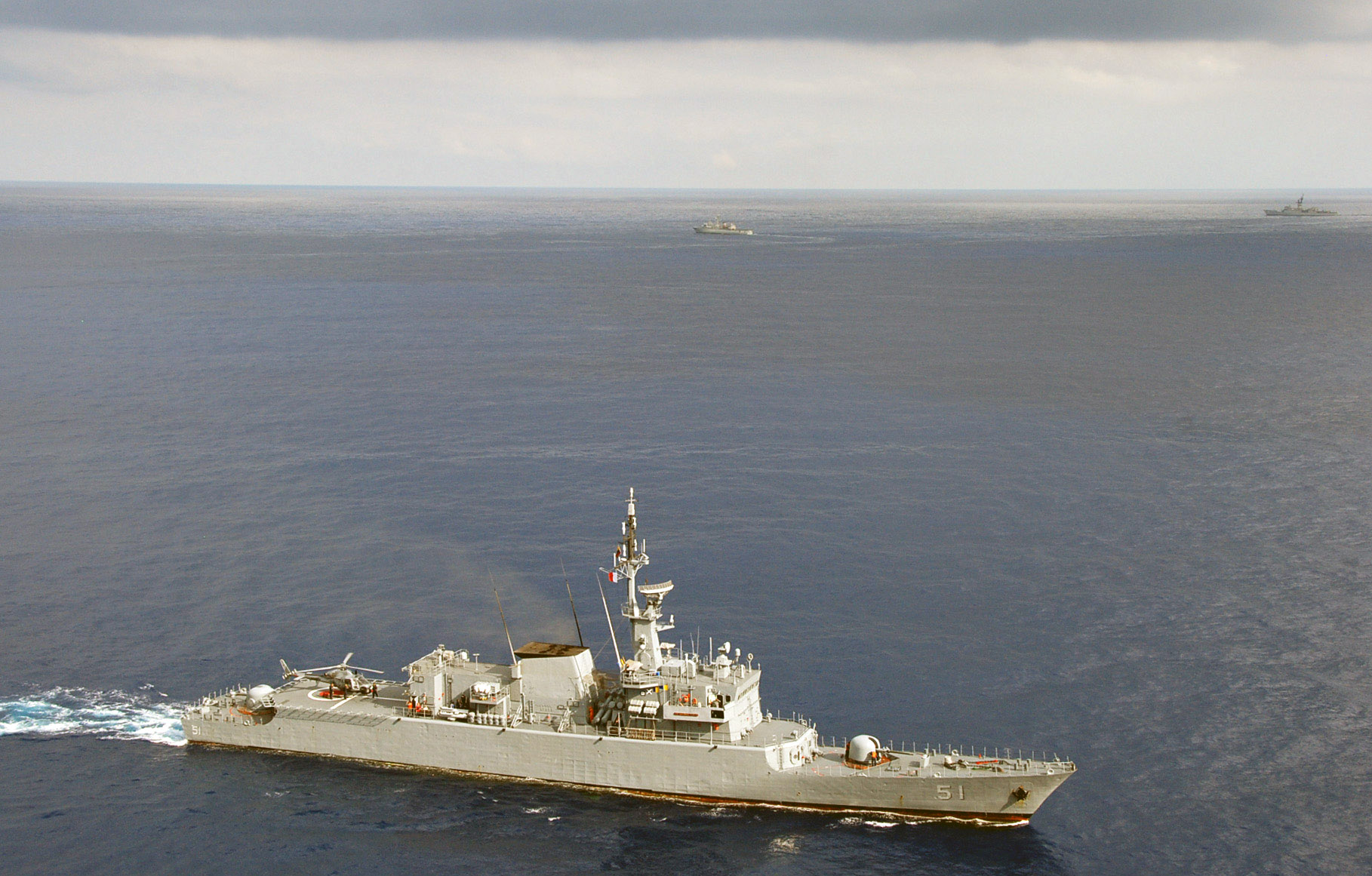 090429-N-8607B-032 ATLANTIC OCEAN (April 29, 2009) The Colombian Navy frigate Almirante Padilla (FL-51) prepares to launch an AS-555 Fennec helicopter as part of a sinking exercise during UNITAS Gold.